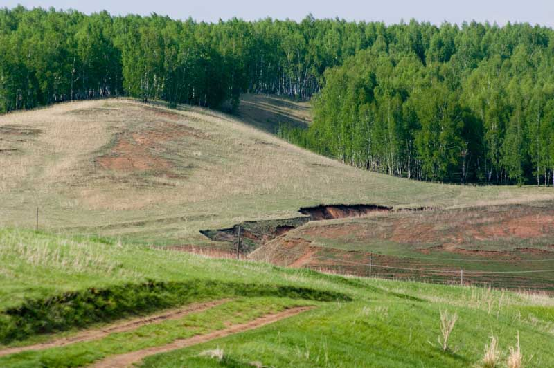 Atryakle village, Tatarstan, Russia. The nature & hills.